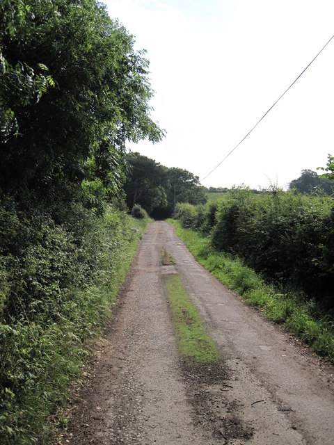 Hope Hall Drive A cul-de-sac road between Hope Hall and the B5373 road near Hope.